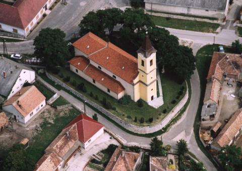 Mocsa, Hungary, aerialphotography